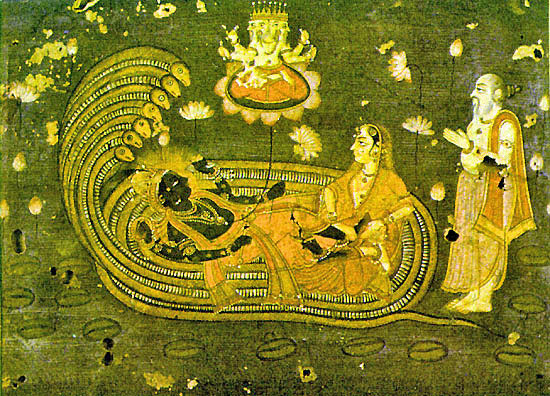 Eighteenth century Vaishnava painting decipting Vishnu,on the serpent Anant Shesha with consort Lakshmi,pressing his feet; sage Markandeya paying his respects to Vishnu, while Brahma emerges in a lotus from Vishnu's navel